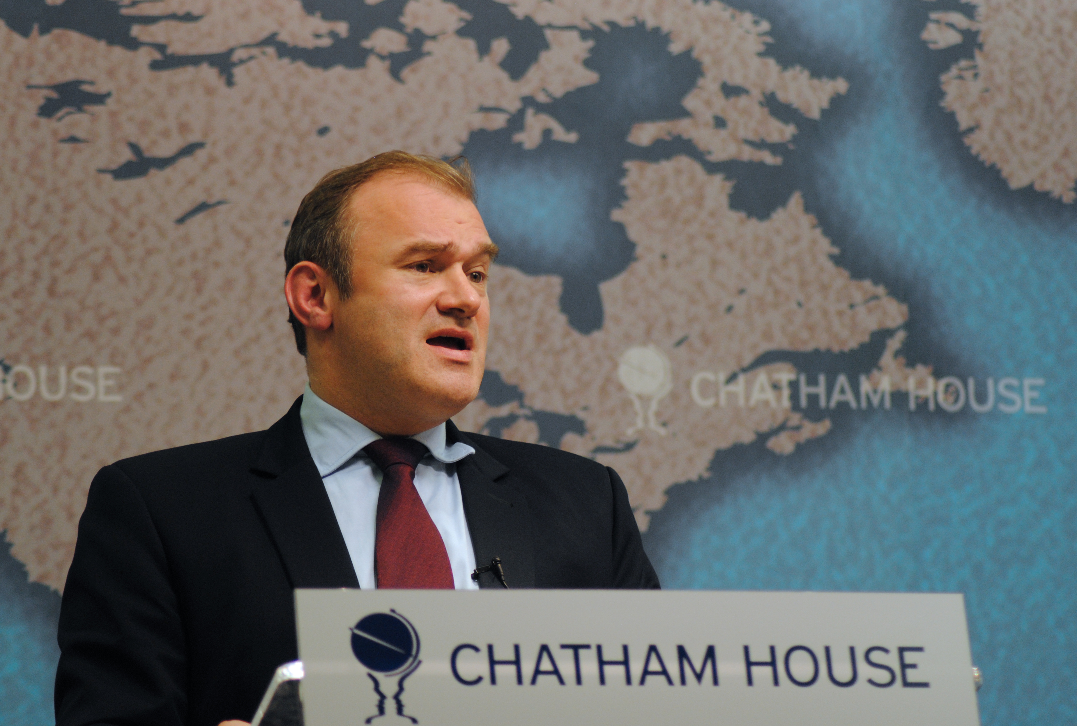 The UK's Vision for Tackling Climate Change, 11 July 2012